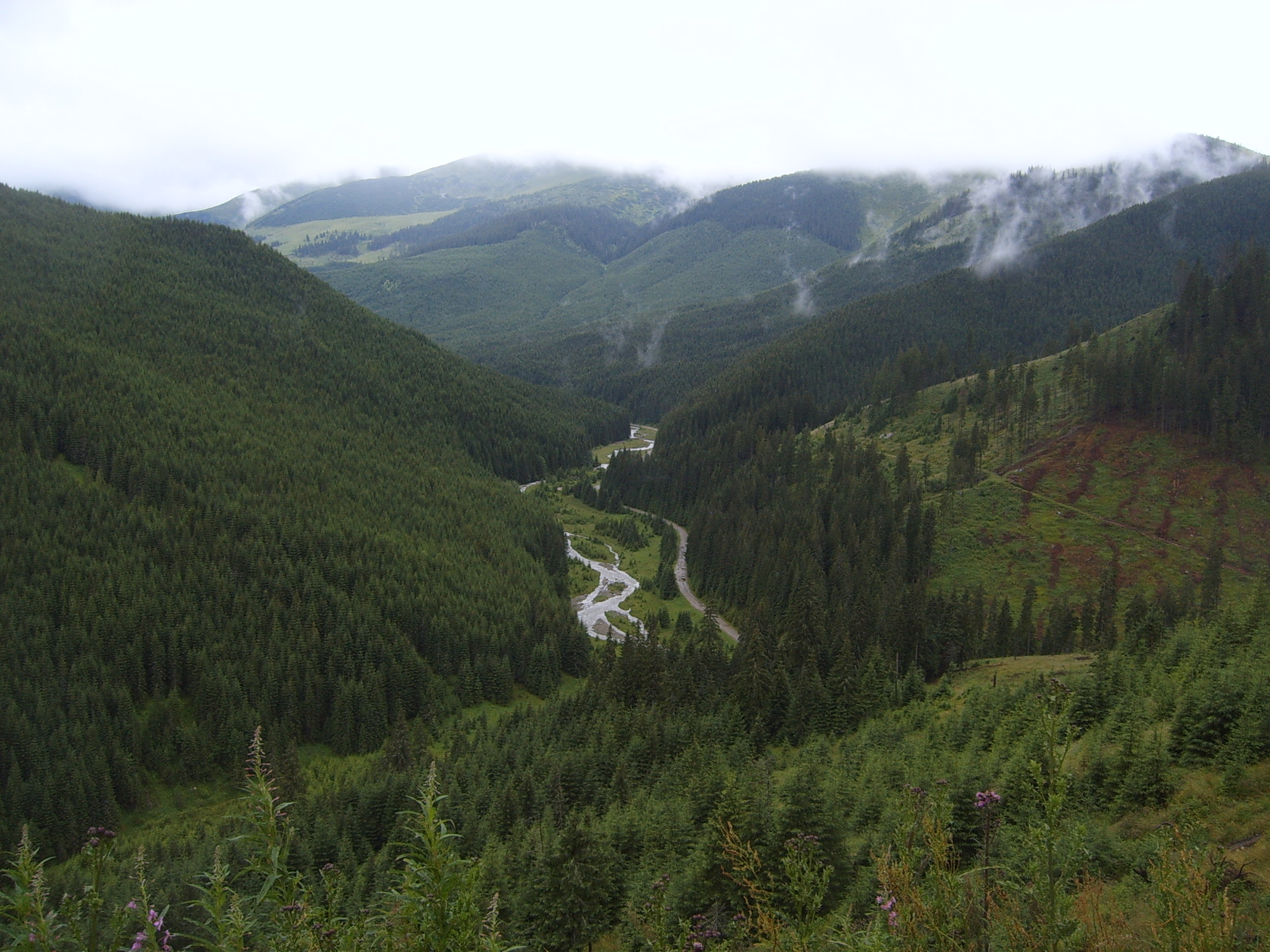 High valley of the Bistriţa river, in the historical Bucovina Region, in the East direction from Prislop Pass to Karlibaba